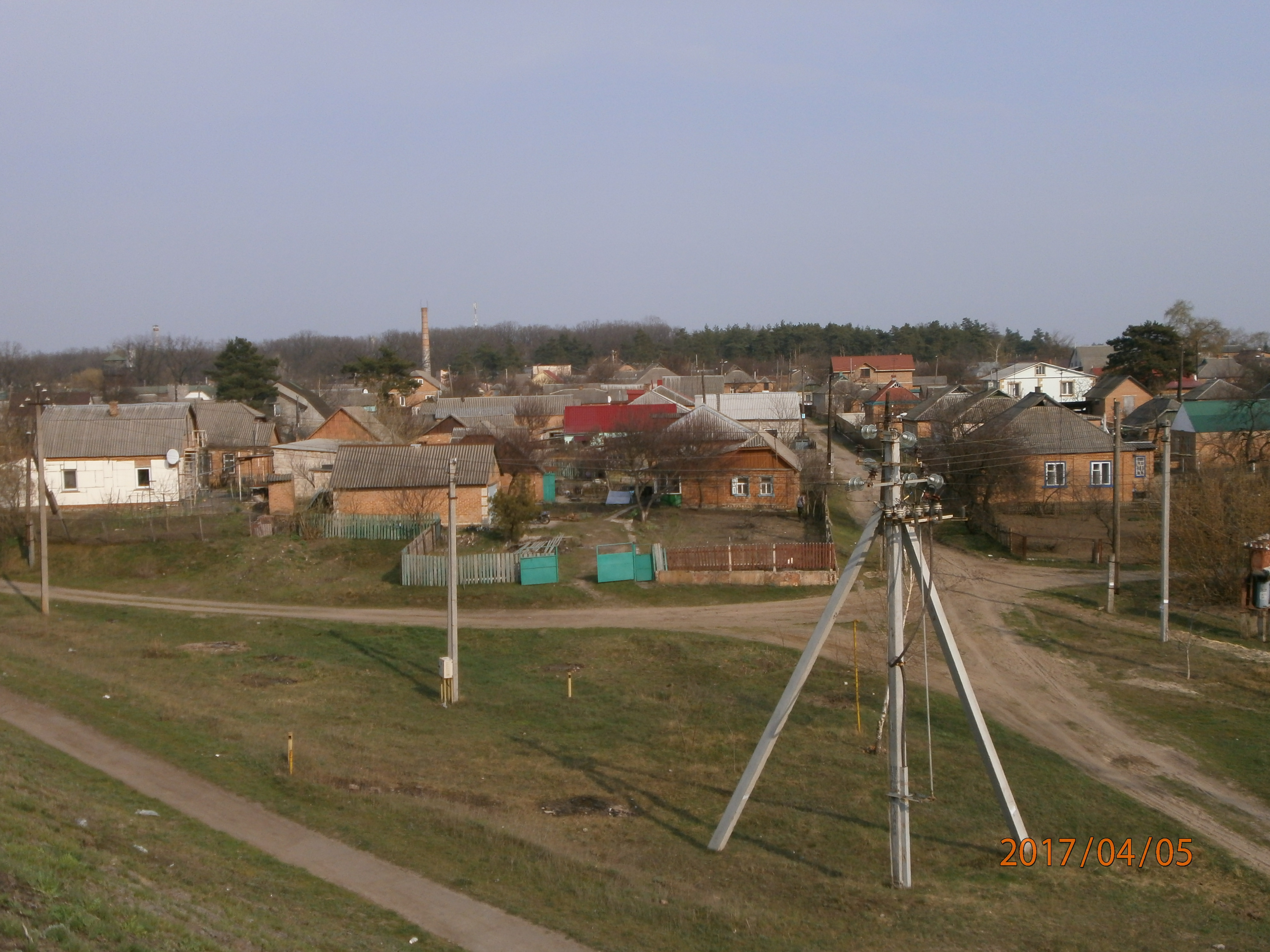 View of Kopyly village, Poltava region